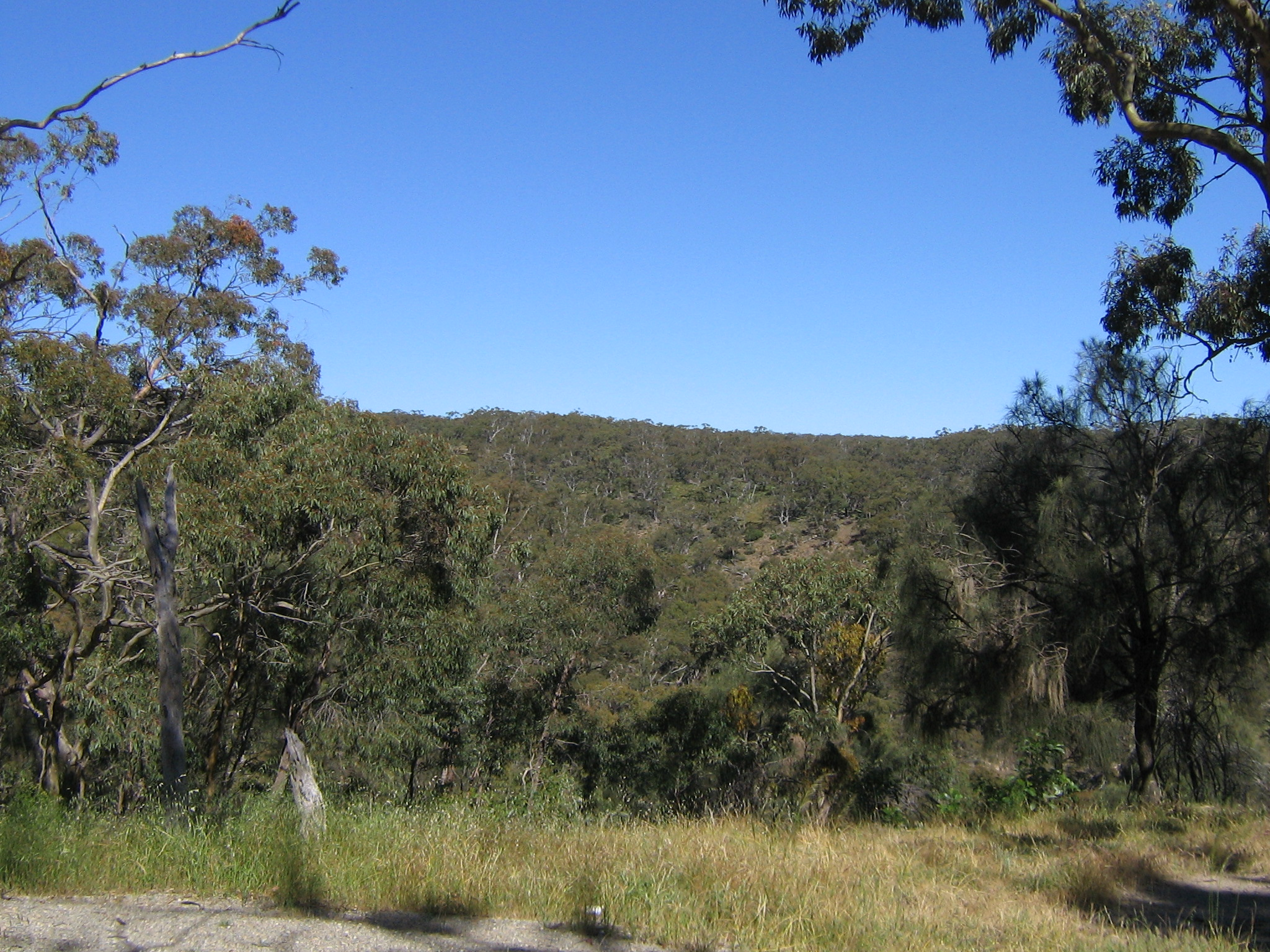 Red Stringybark trees in Spring Gully Conservation Park. Photo taken by Scott Davis 5 November 2005